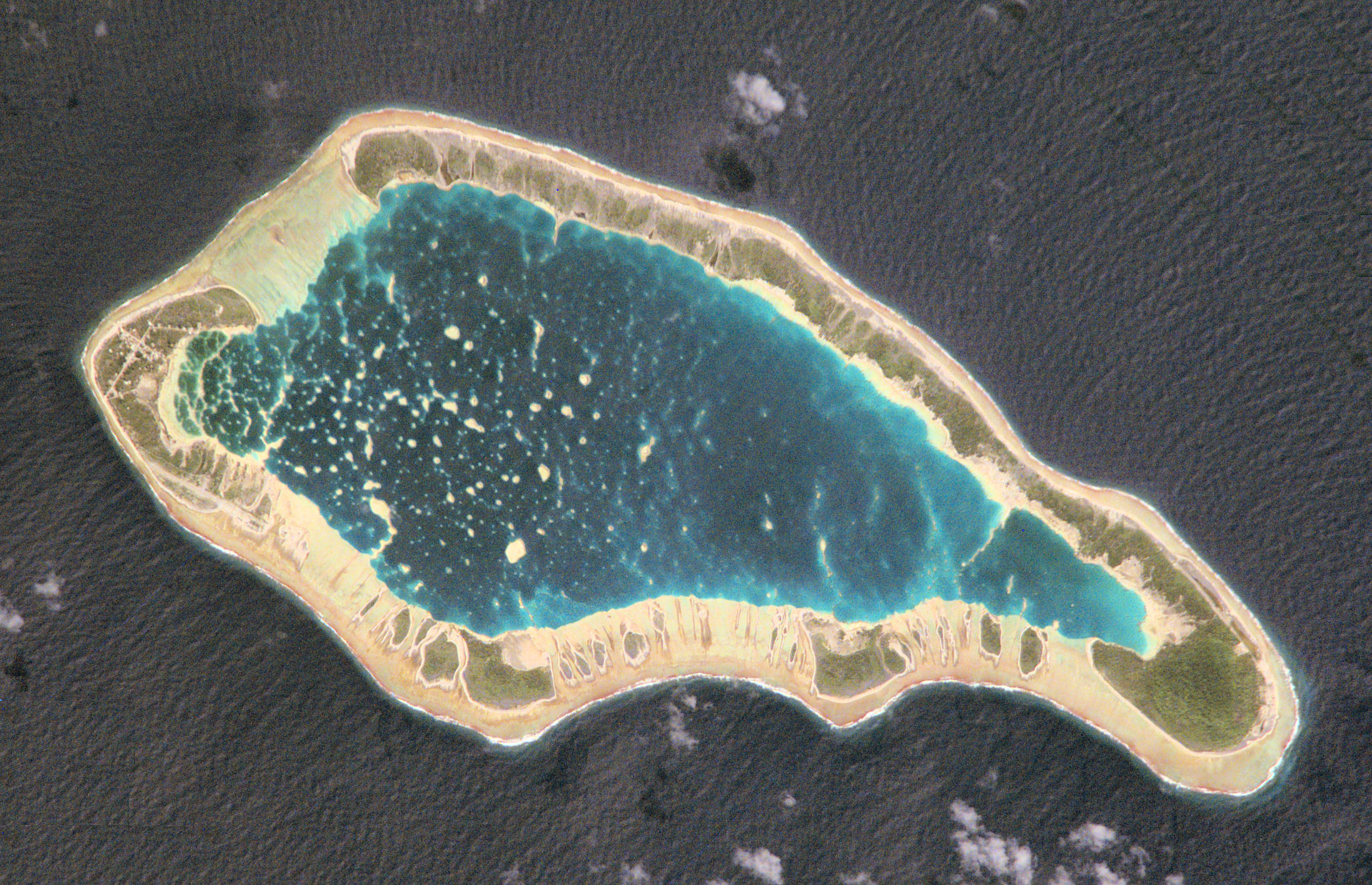 Atoll Napuka (Tuamotu Archipelago, French Polynesia), from space.